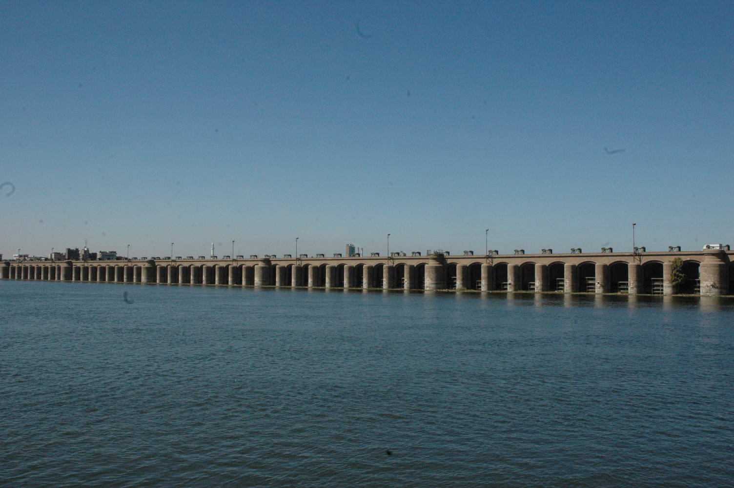 أهم عوامل الجذب السياحي في محافظة أسيوط